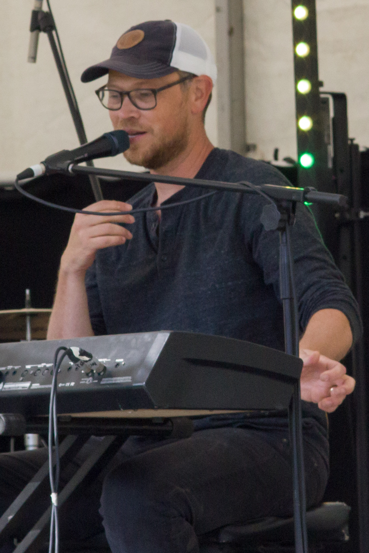 Andrew Peterson playing at the Big Church Day Out Festival, Wiston House, UK, in May 2019.